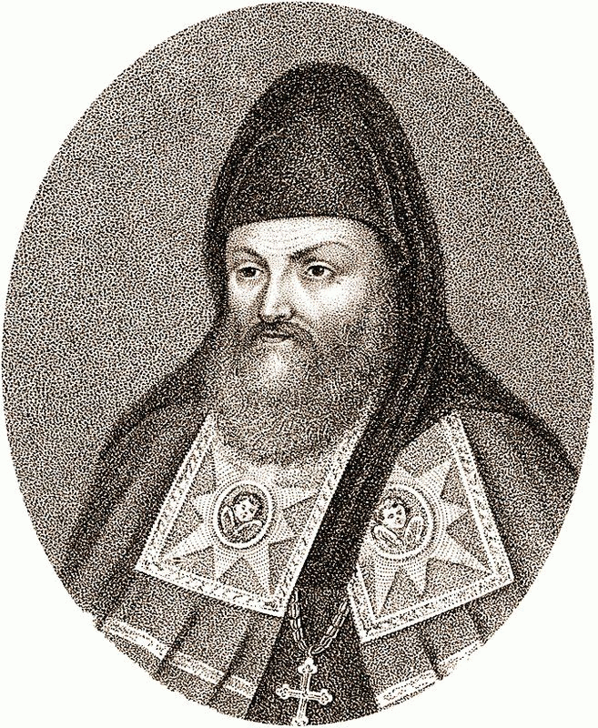 Innokentiy Gizel, Ukrainian / Russian historian, portrait